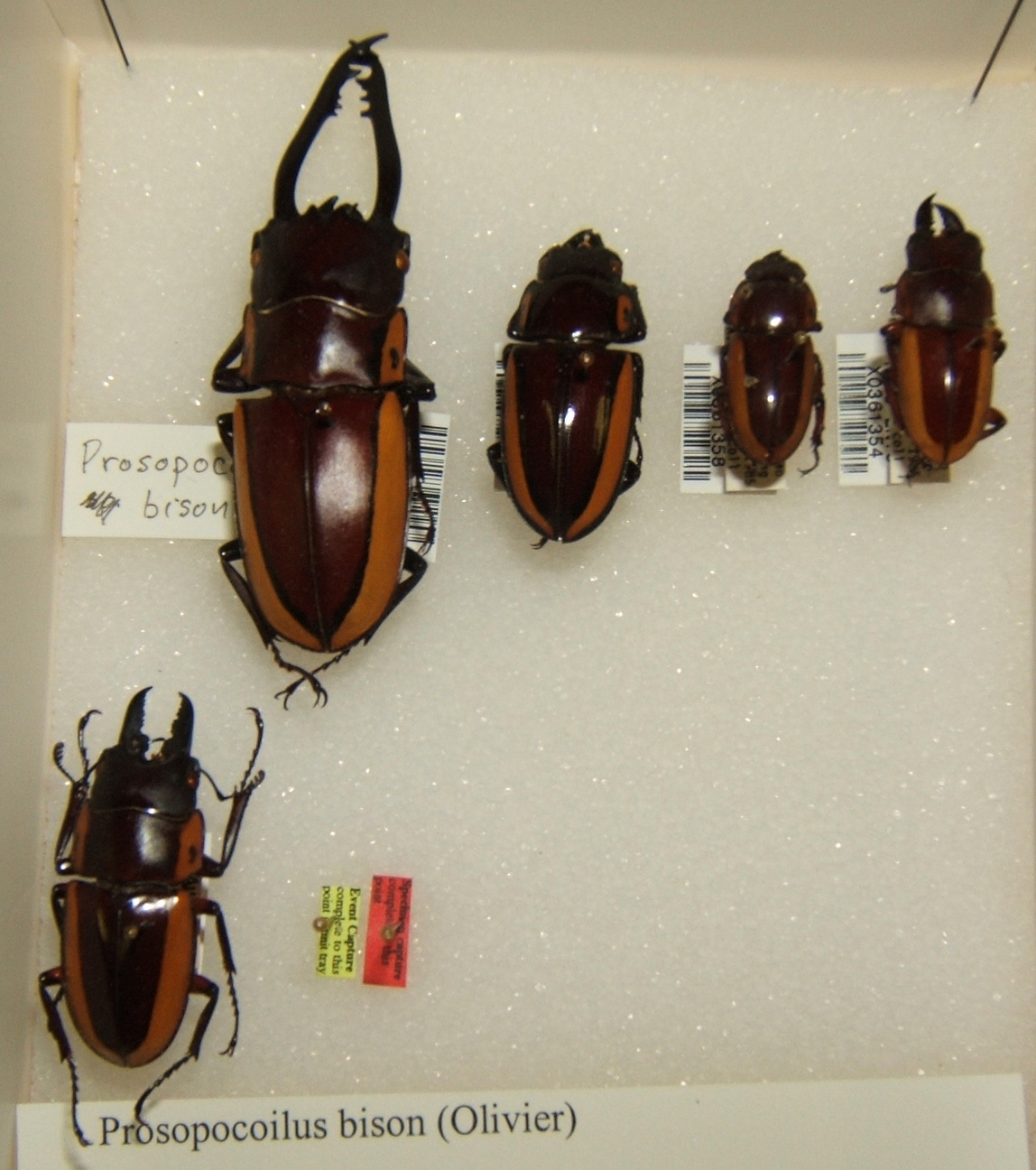 Prosopocoilus bison adult taken by Shawn Hanrahan at the Texas A&M University Insect Collection in College Station, Texas.